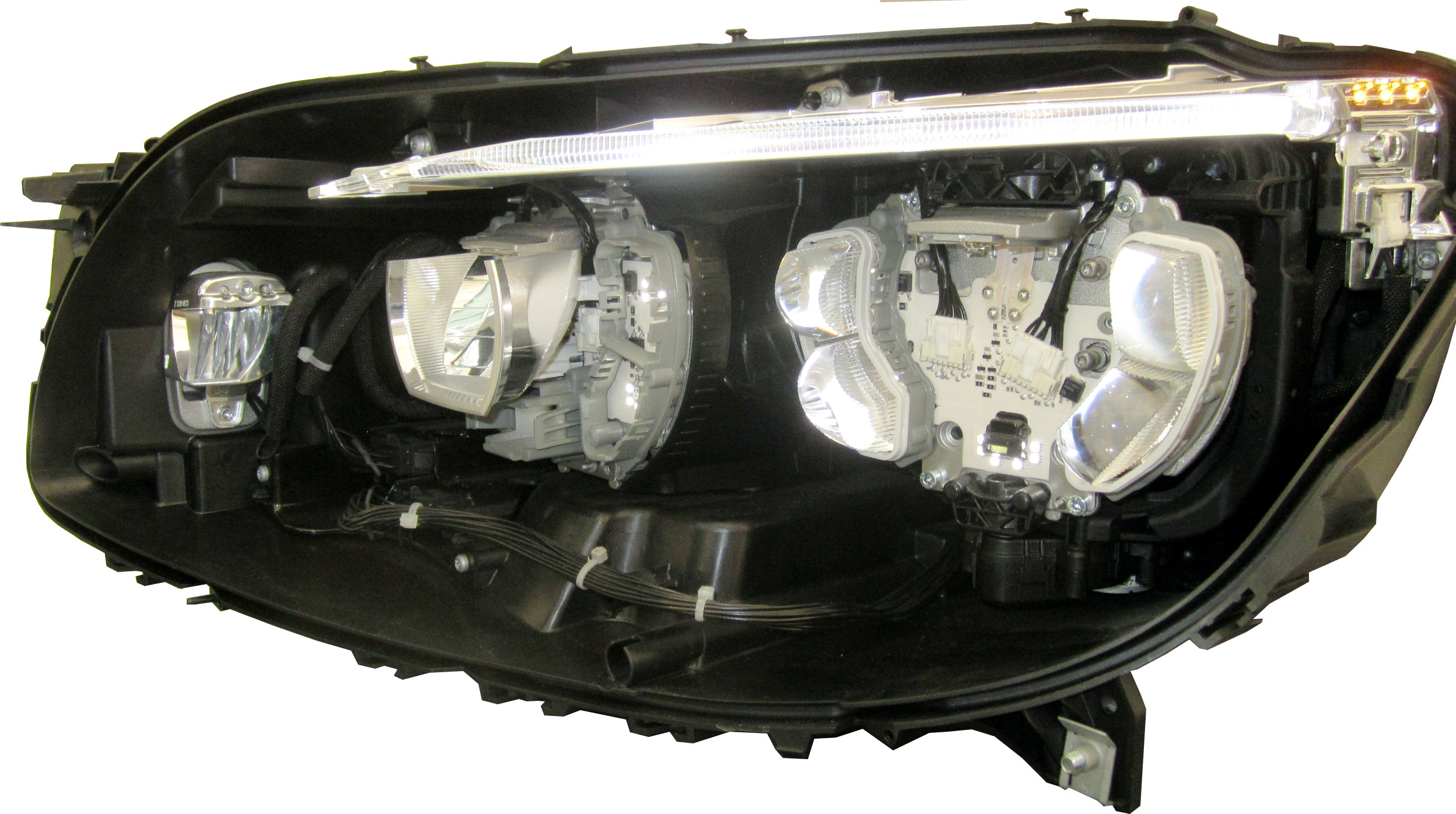 Insight into an automobile LED Headlamp